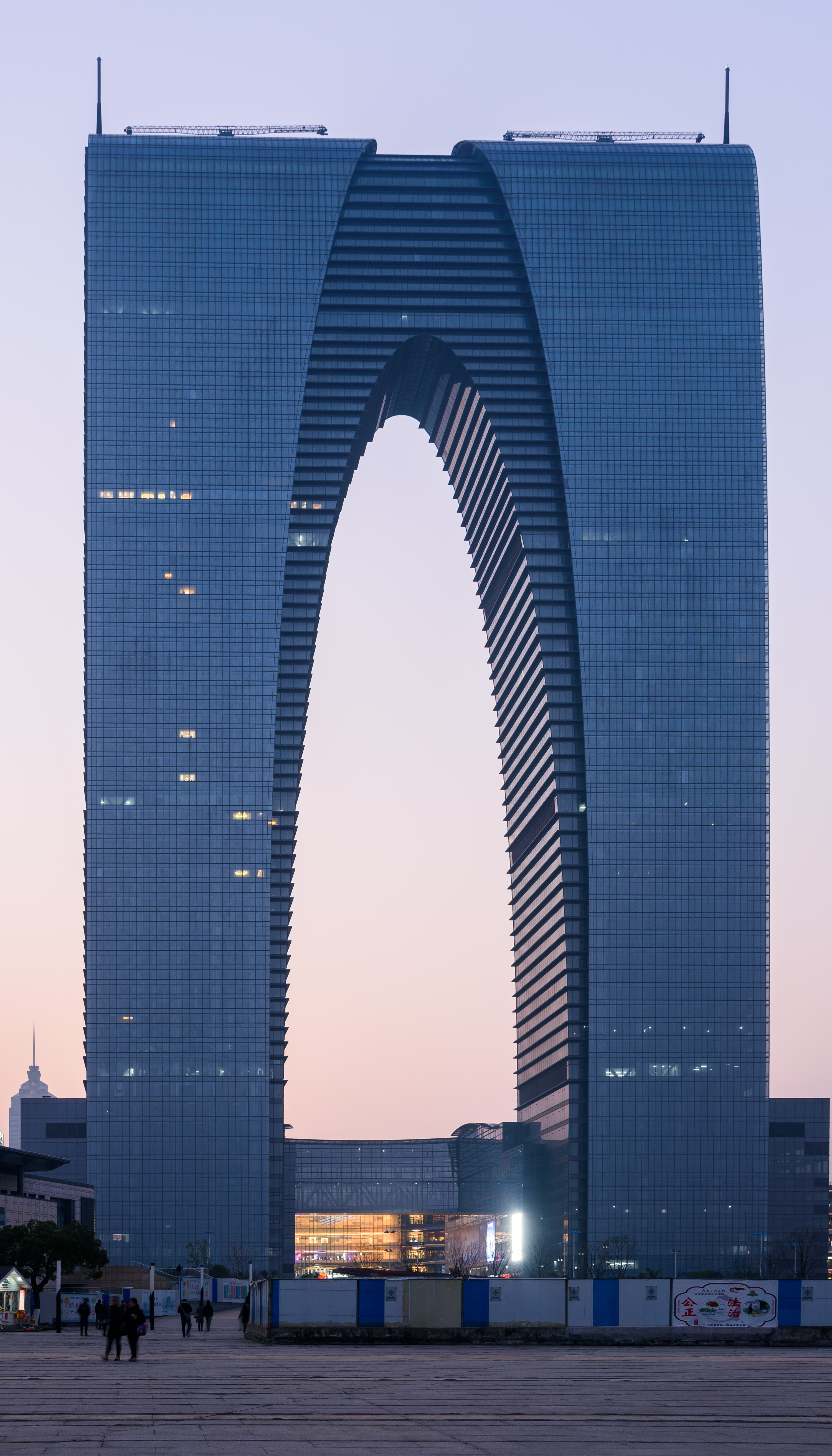 Gate to the East, Suzhou, China.